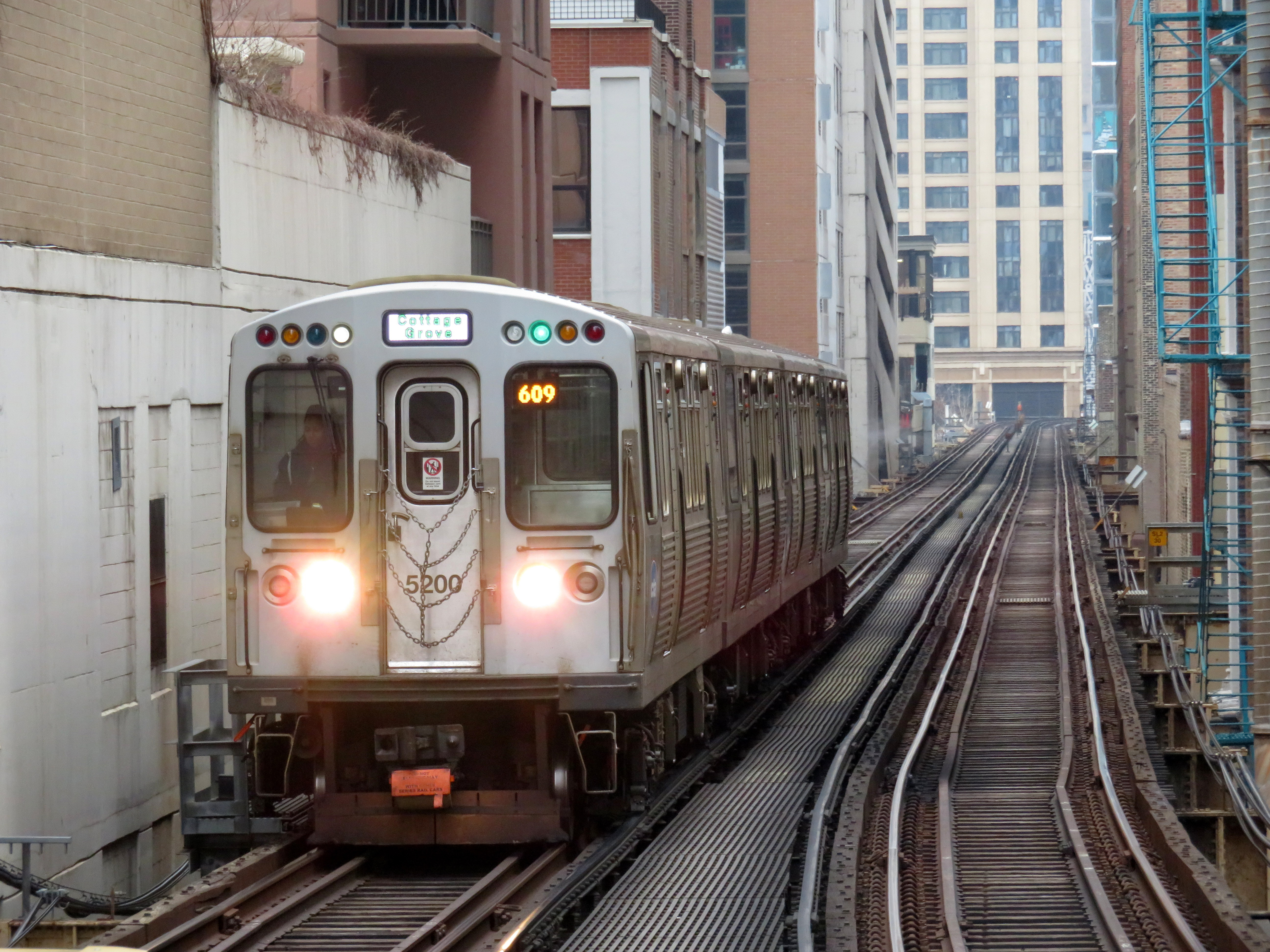 A Cottage Grove-bound Green Line train approaching Roosevelt station in December 2018